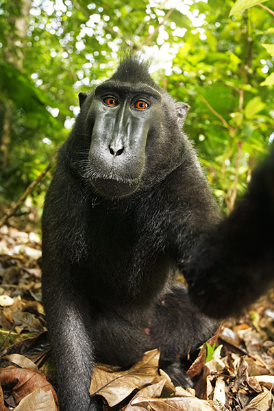 Selfie taken by a crested black macaque using David Slater's camera